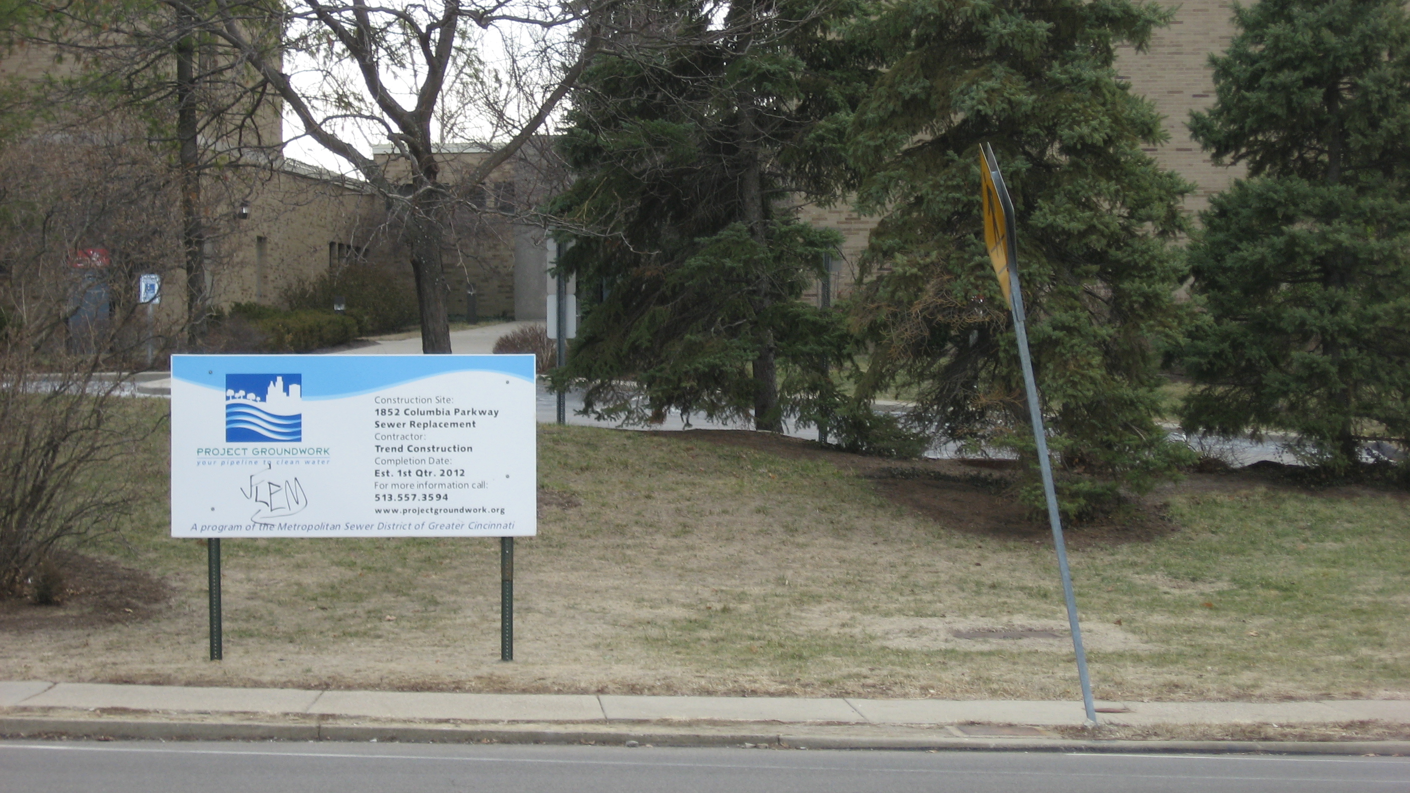 Land at 2220 Victory Parkway in the Walnut Hills neighborhood of Cincinnati, Ohio, United States. This area was once part of the campus of Edgecliff College, although it is now owned by the University of Cincinnati College of Applied Science. The site was once occupied by the Edgecliff Area Historic Group, a cluster of historic buildings that were listed on the National Register of Historic Places in 1977; the site remains on the Register despite the buildings' destruction.